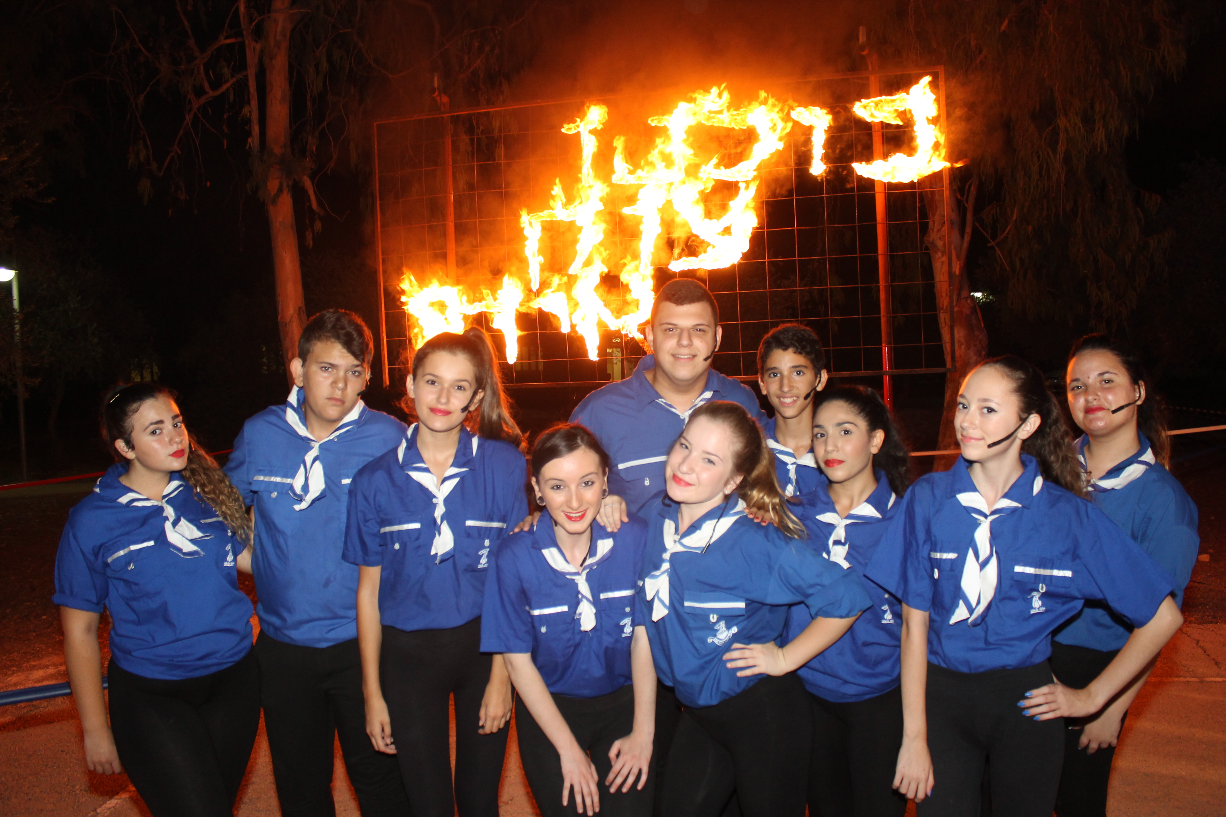 zuk eitan